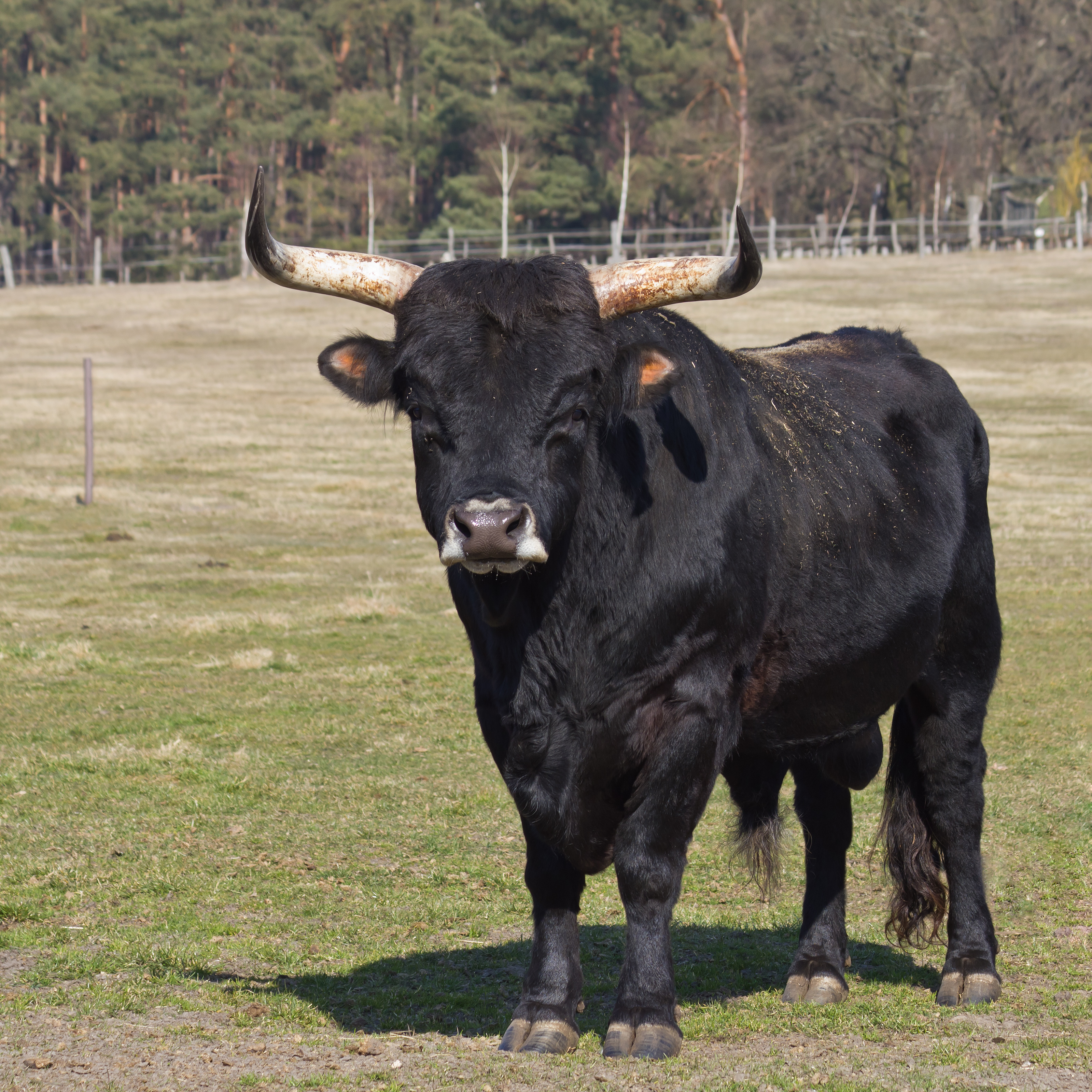 Wildlife park Johannismühle near Baruth/Mark, Brandenburg, Germany. A heck cattle bull.